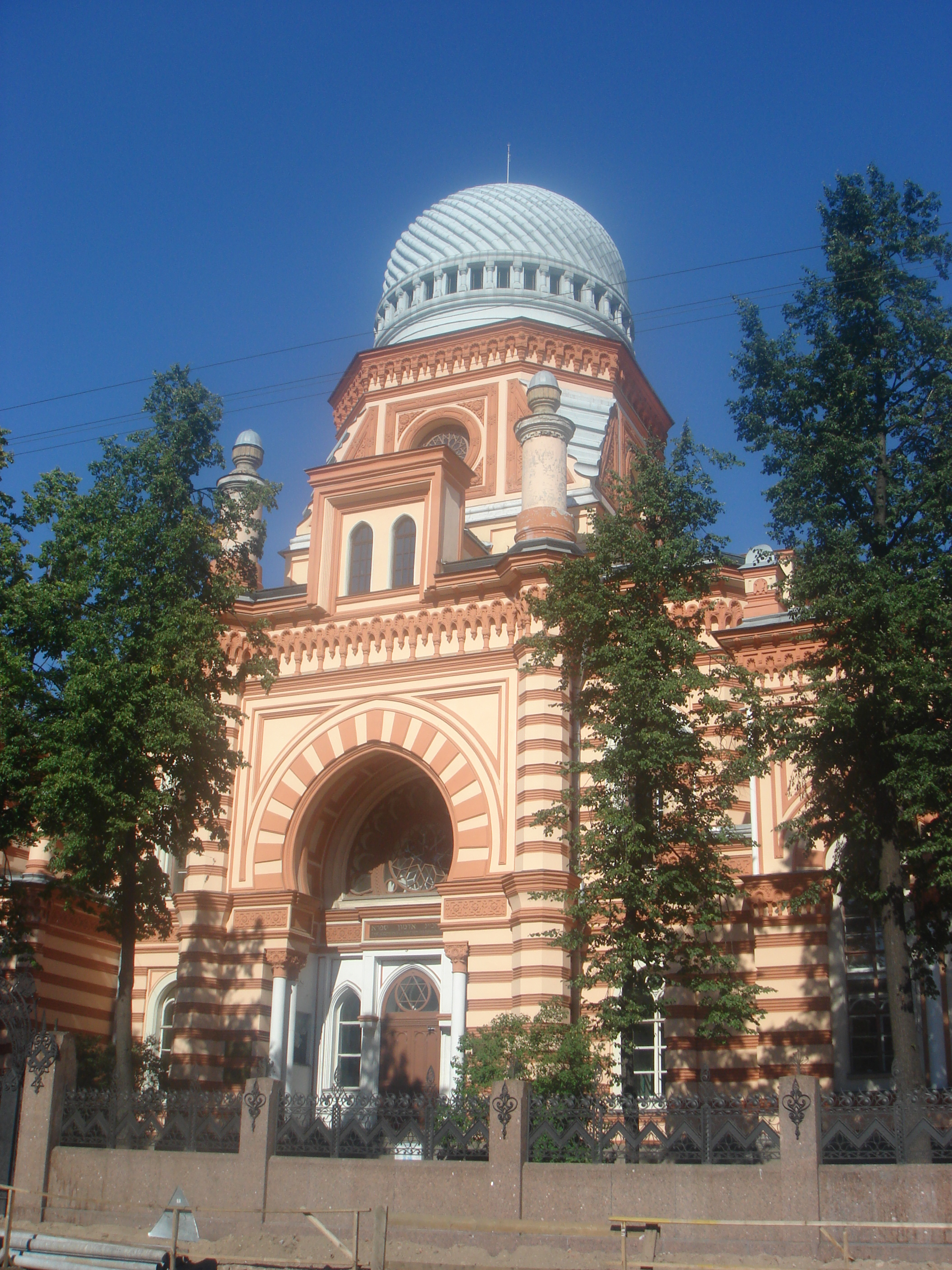 Exterior of Choral Synagogue, Saint Petersburg, synagogue